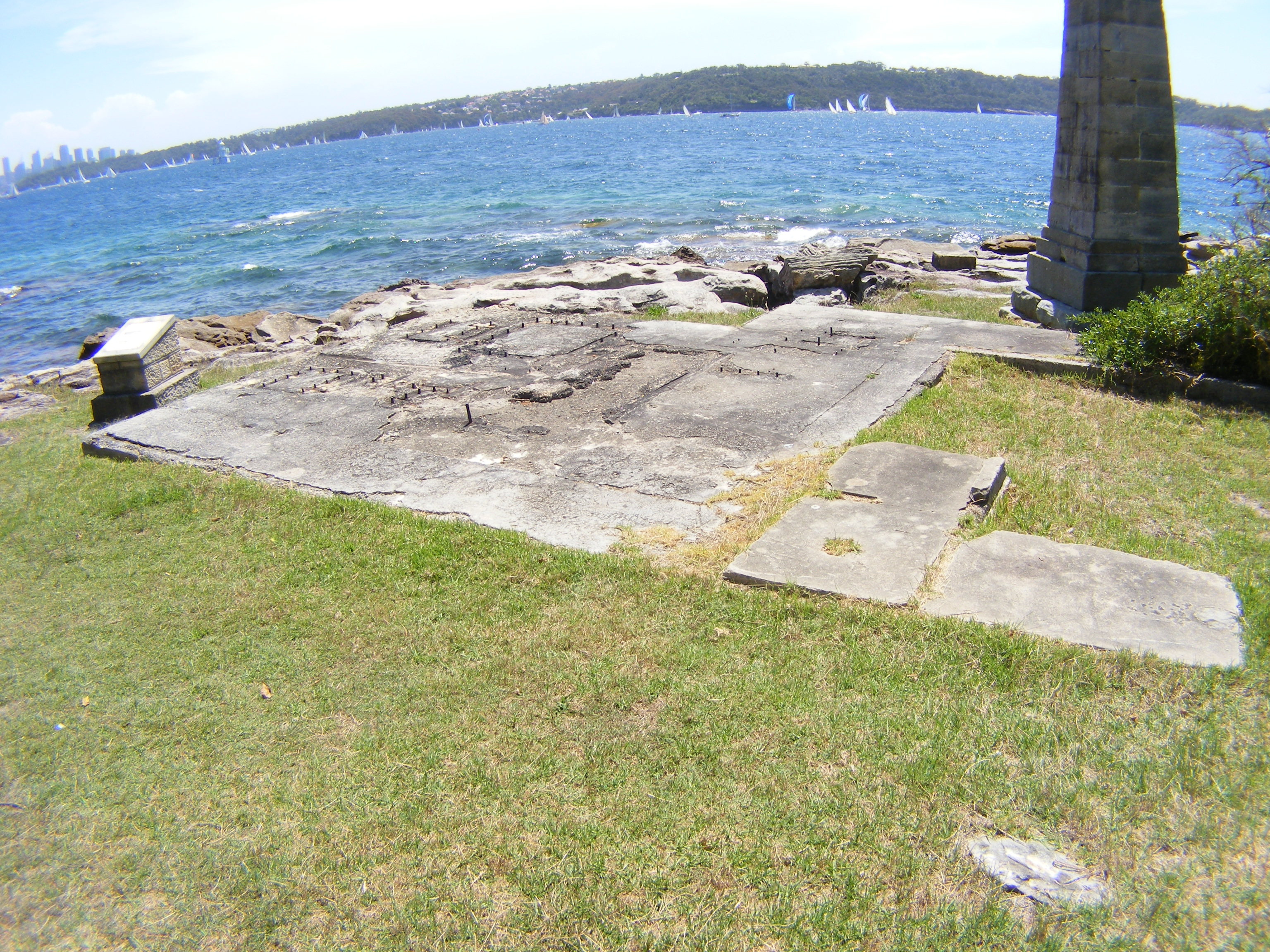 Watsons Bay Sydney